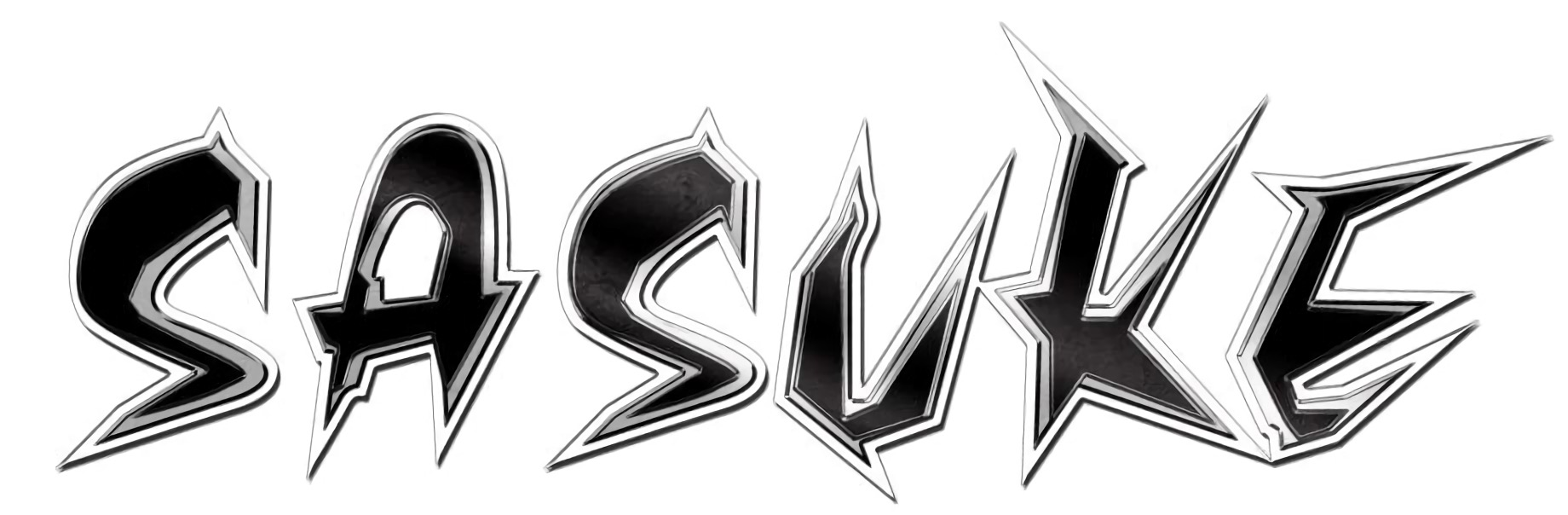 Logo of Japanese television program Sasuke (TV series)